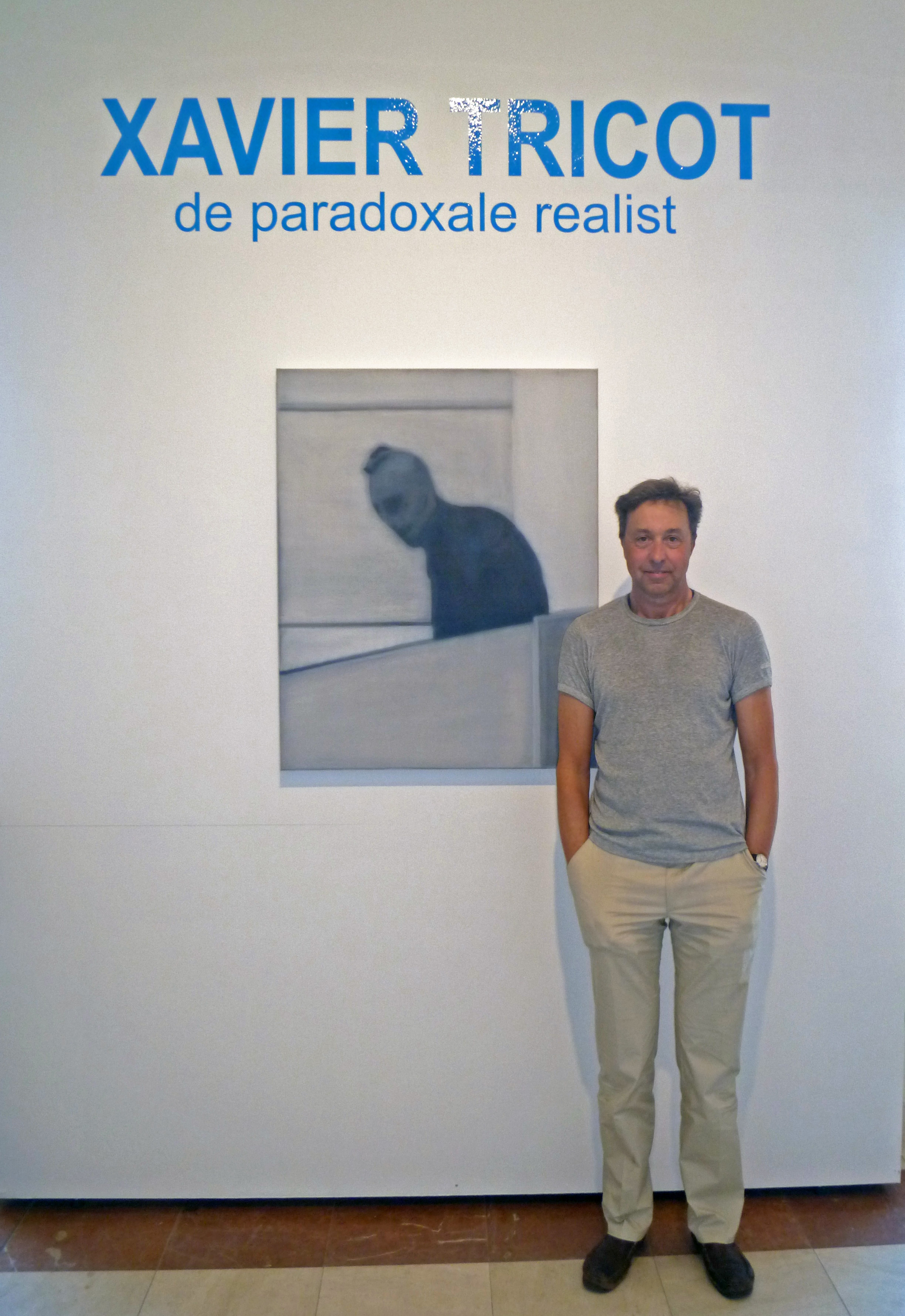 The Belgian artist Xavier Tricot during his exhibition of his works in Ostend, Belgium